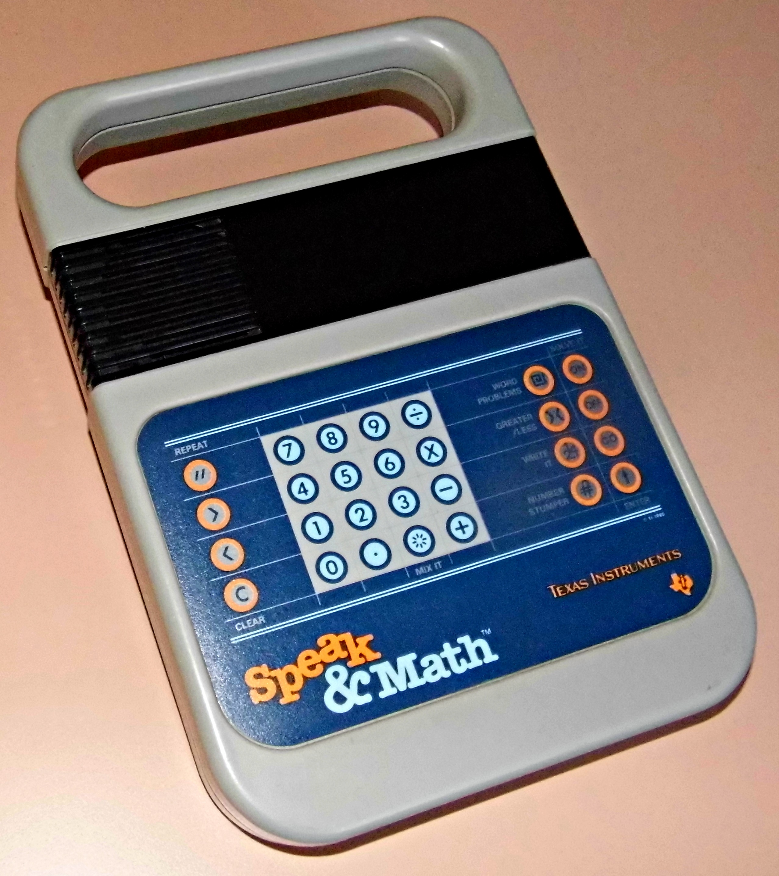 Vintage Texas Instruments Speak & Math Electronic Game, Made In USA, Circa 1980 from Flickr album "[ Vintage Handheld and Other Electronic Games ]" by Joe Haupt "A good source of information on vintage handheld electronic games is the Electronic Handheld Game Museum ."